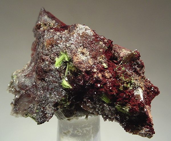 Agardite-(Ce) Locality: Tsumeb Mine (Tsumcorp Mine), Tsumeb, Otjikoto (Oshikoto) Region, Namibia (Locality at ) Size: 2.6 x 1.6 x 0.6 cm. A rich example of Agardite-(Ce) in the form of pistachio-green acicular crystals on contrasting matrix. Ex. Willy Israel Collection.